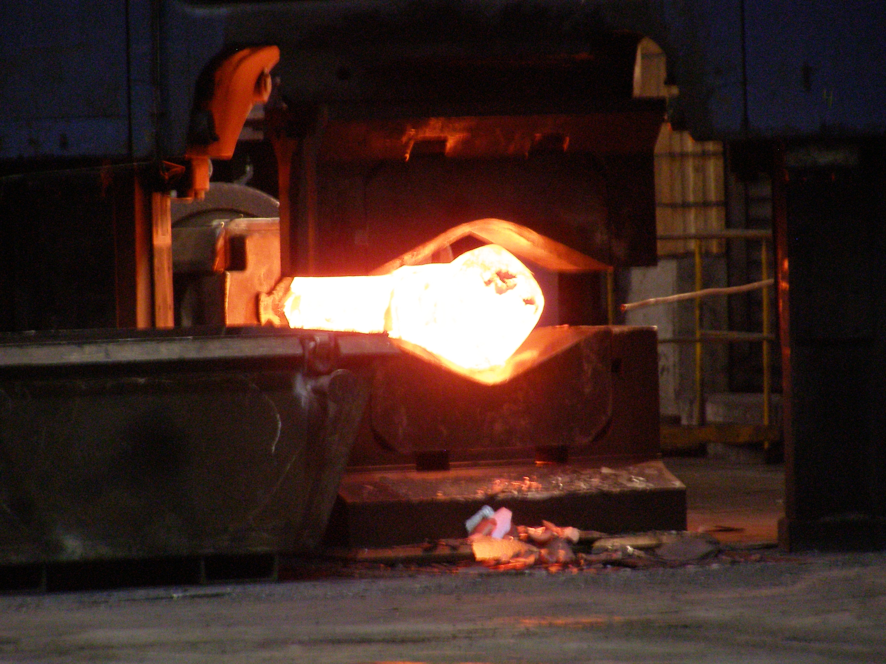 Steel forging